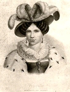 Princess Augusta of Prussia (1780-1841)